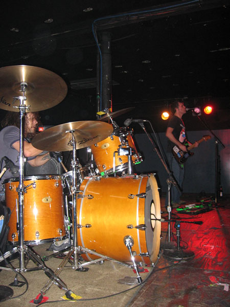 Local H performing at the Sokol Underground on November 6, 2005.